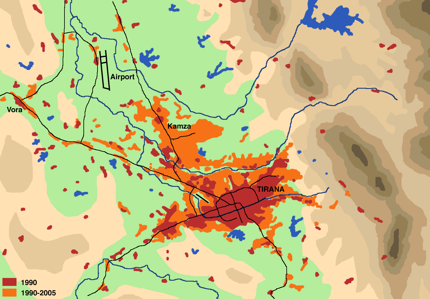 Schematical illustration of the population development (settlement area, commercial zones) in the region of Tirana from 1990 to 2005